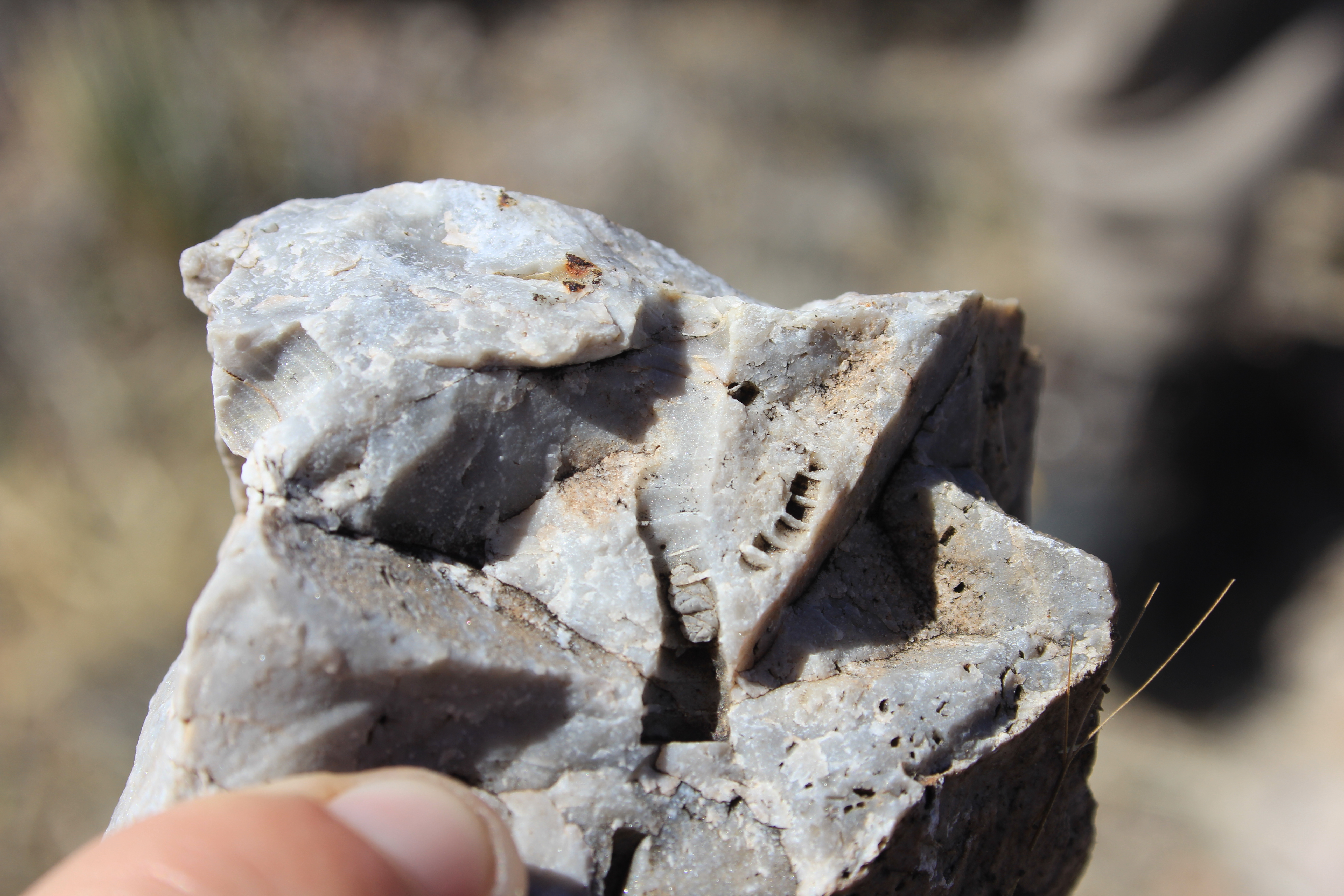 Crinoid casts in limestone at Kartchner Caverns State Park, Arizona.